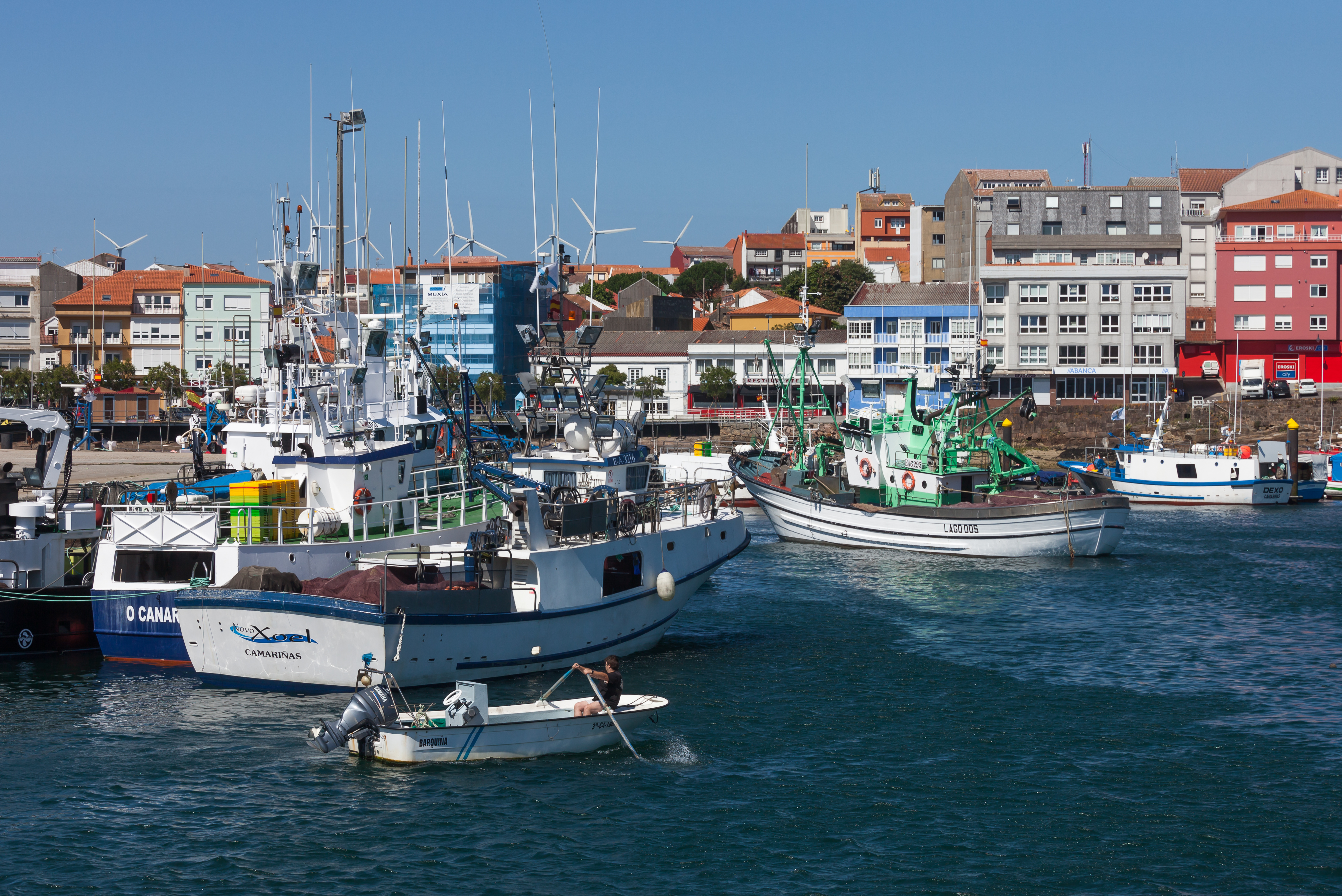 Port of Camariñas, Galicia (Spain)